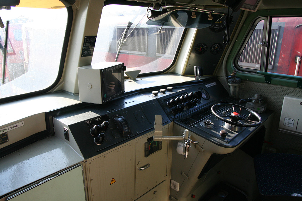 The driver's cab on a DB class 217 diesel locomotive